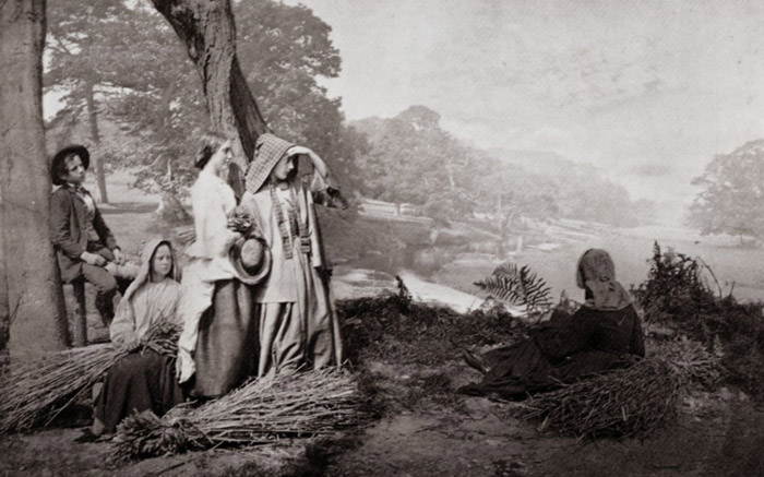 Autumn